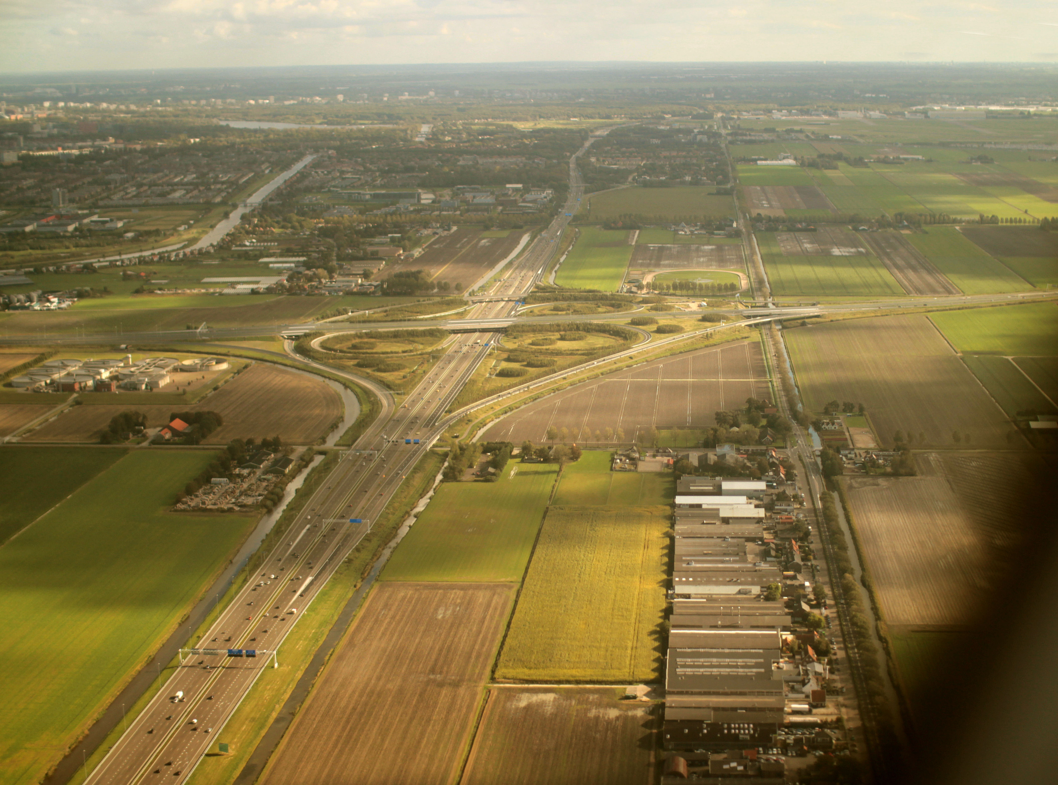 The junction Raasdorp between the A5 and A9 motorways, as seen from kl423, looking eastwards in the direction of Badhoevedorp